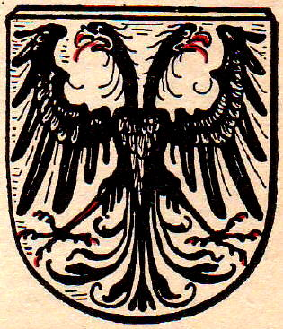 Coat of Arms of Plaue